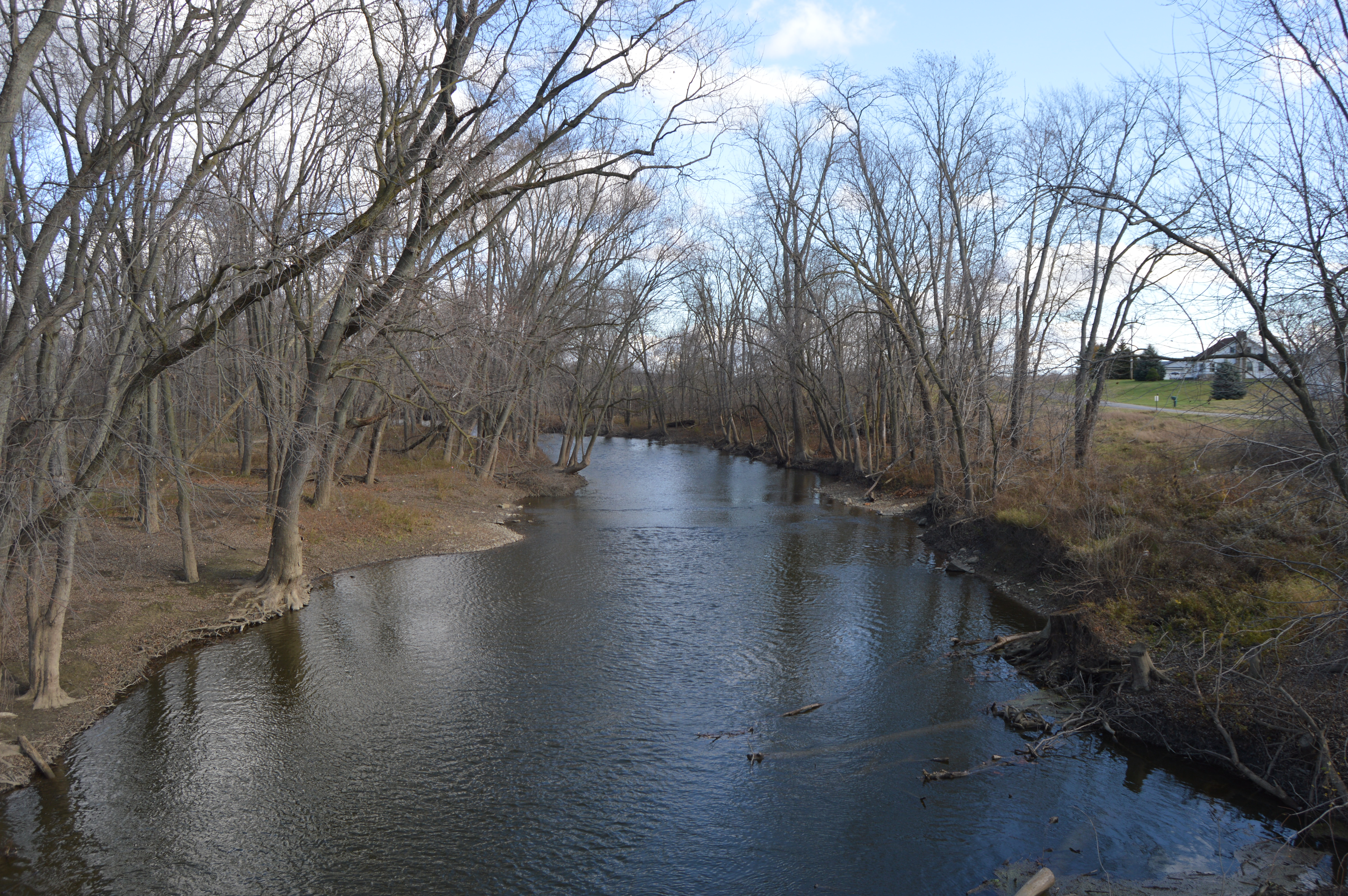 Looking eastward (upstream) along the St. Joseph River from the Clarksville Bridge in far northern Milford Township, Defiance County, Ohio, United States.